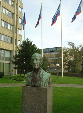 Sven Wingquist, the founder of SKF